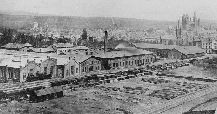 View of the Limburg train station before the expansion in 1880.